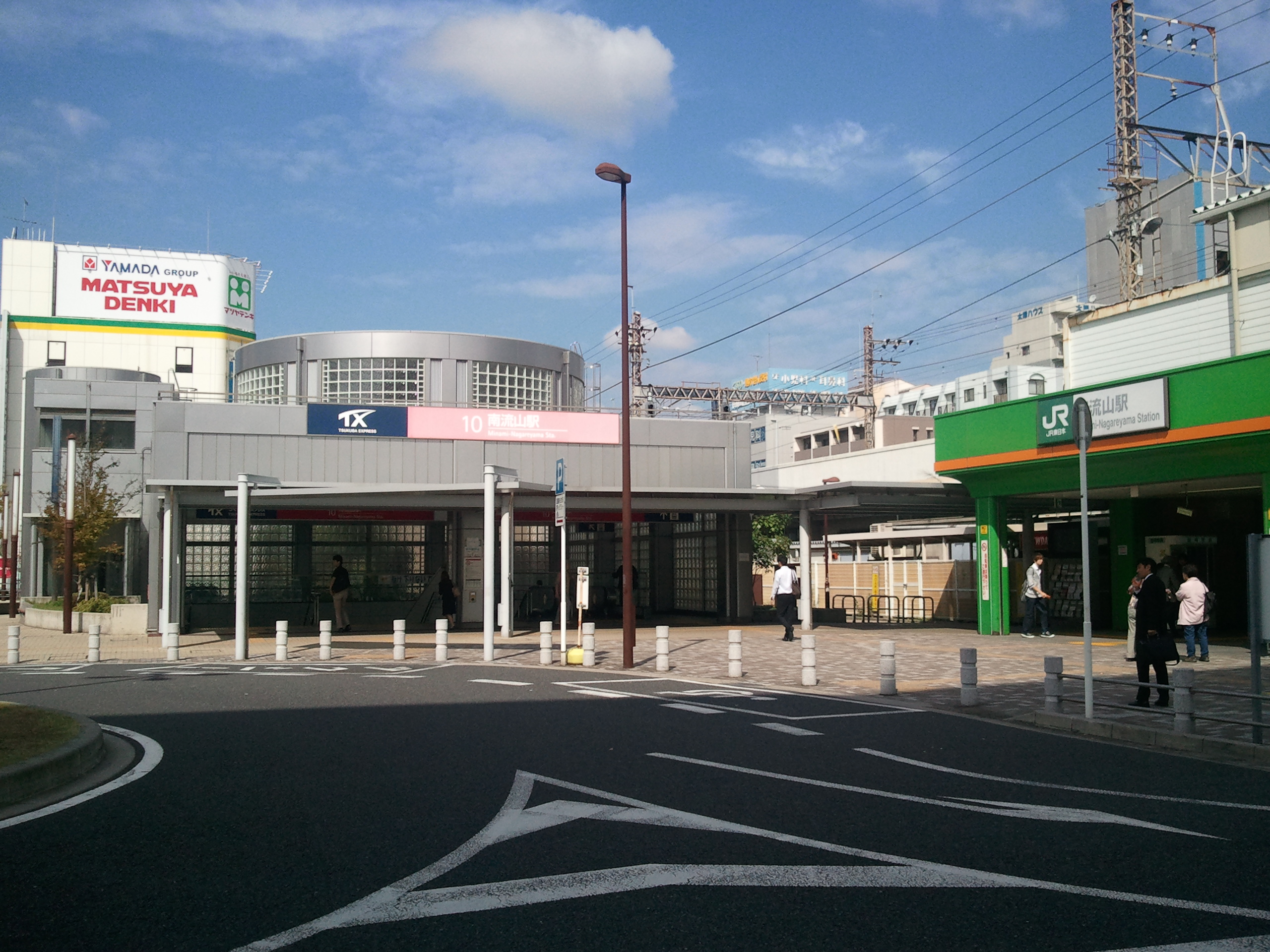 South side of Minami-Nagareyama Station on the Musashino Line and Tsukuba Express